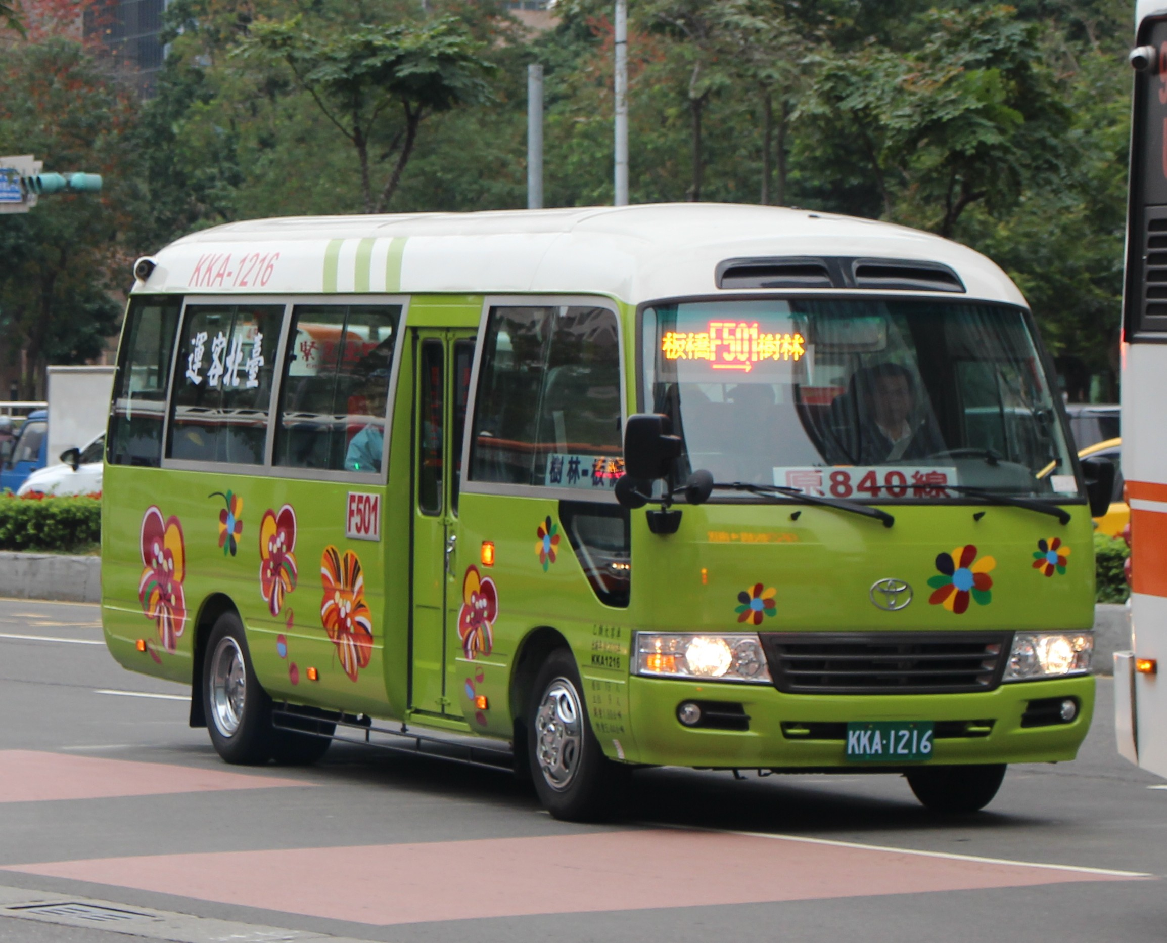 2016 TOYOTA COASTER XZB50L-ZEMSYR